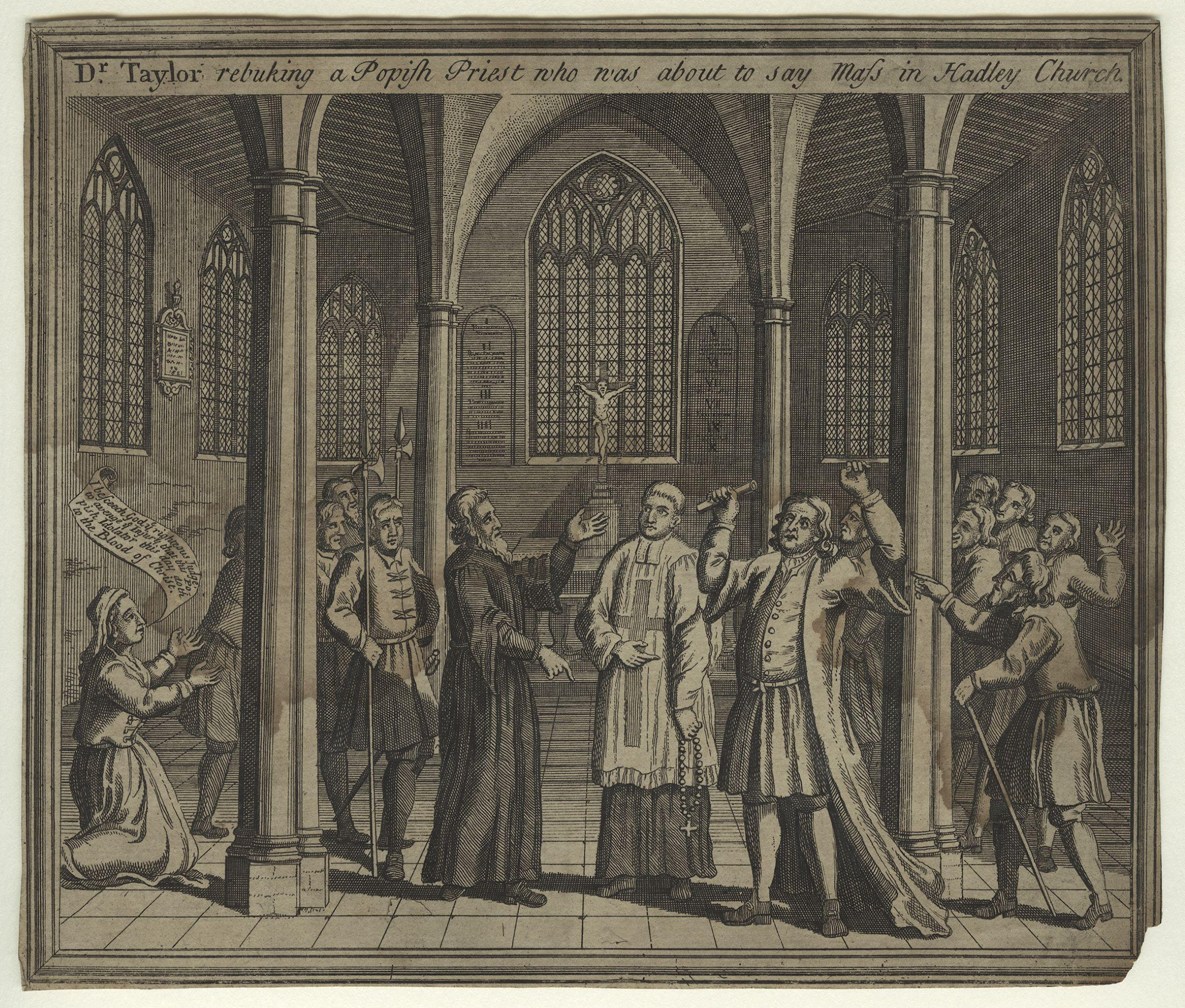 Dr Taylor rebuking a Popish Priest who was about to say Mass in Hadley Church (Thomas Taylor), by unknown artist. All images in this batch are listed as "unknown author" by the NPG, who is diligent in researching authors, and was donated to the NPG before 1939 according to their website.